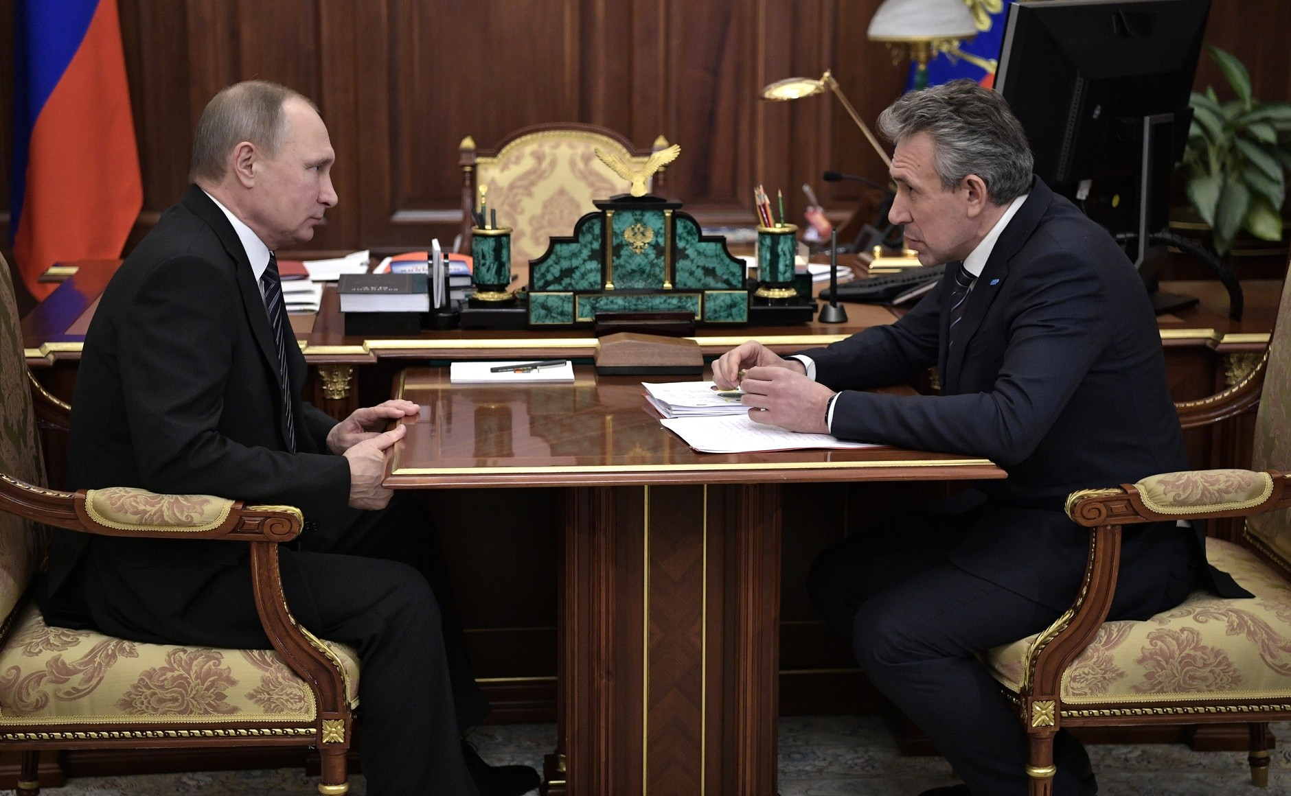 Russian President Vladimir Putin meets with Sergei Gorkov, chairman of Vnesheconombank.